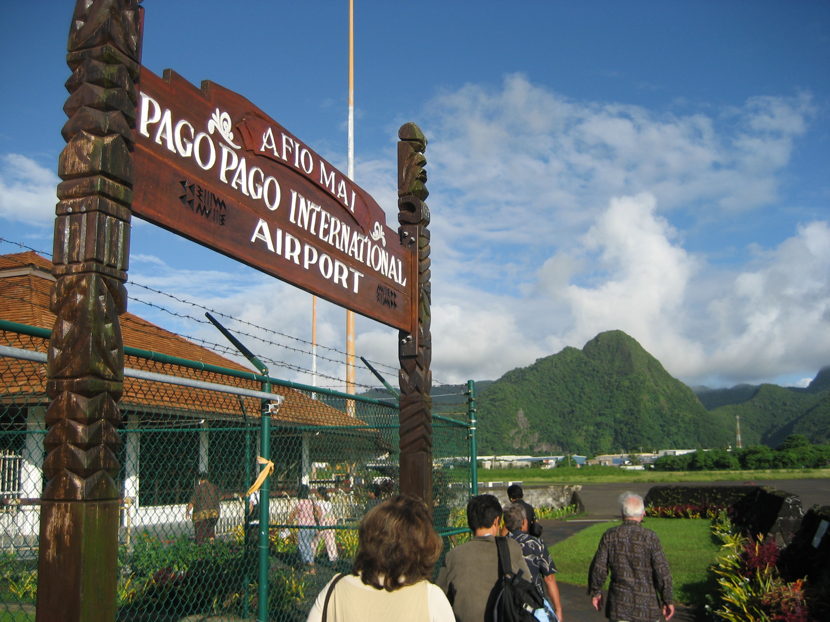 Airside at the airport